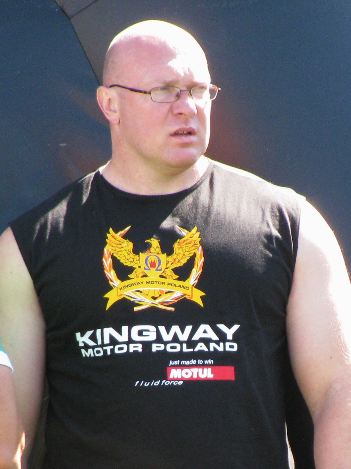 Krzysztof Schabowski - a strength athlete from Poland